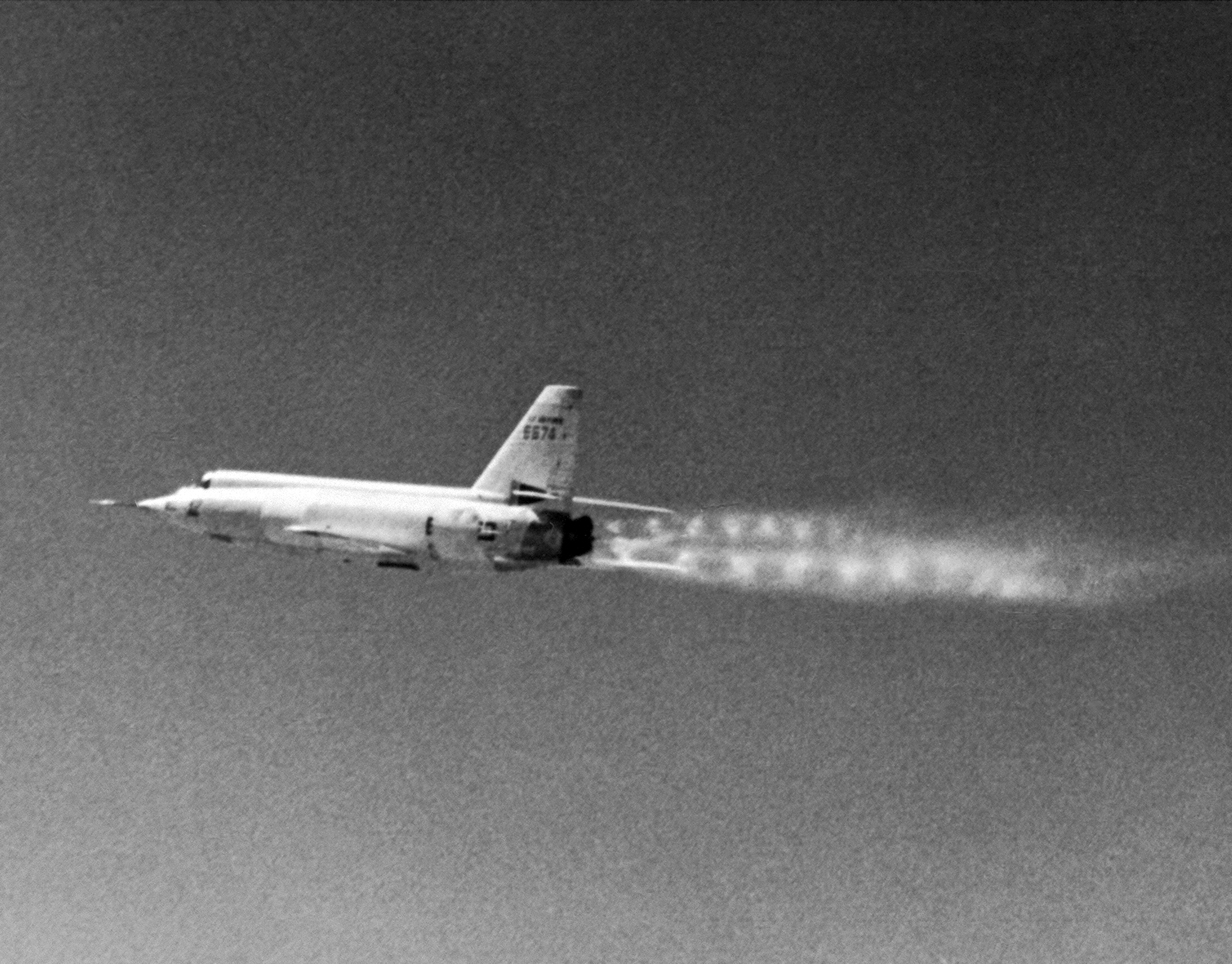 This inflight photograph of the X-2 (46-674) shows the twin set of shock-diamonds, characteristic of supersonic conditions in the exhaust plume from the two-chamber rocket engine.